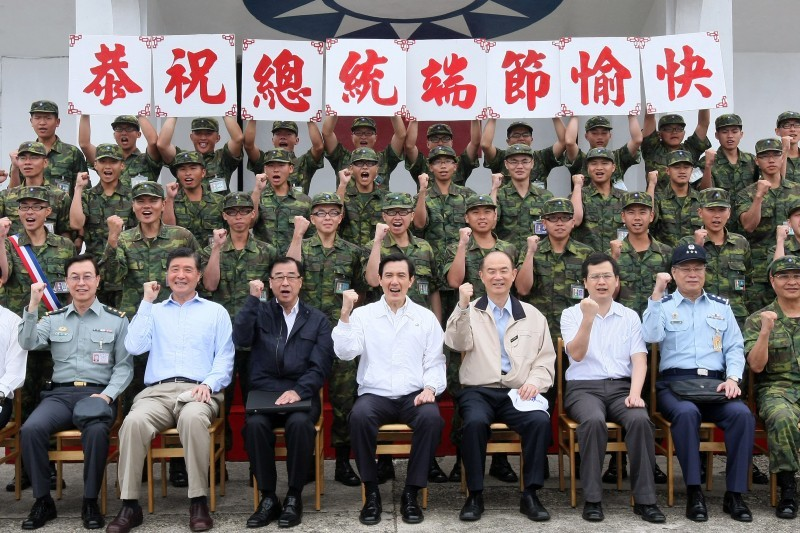 President Ma visits Liang Islet in the Matsu Islands prior to Dragon Boat Festival. (2010/06/09)